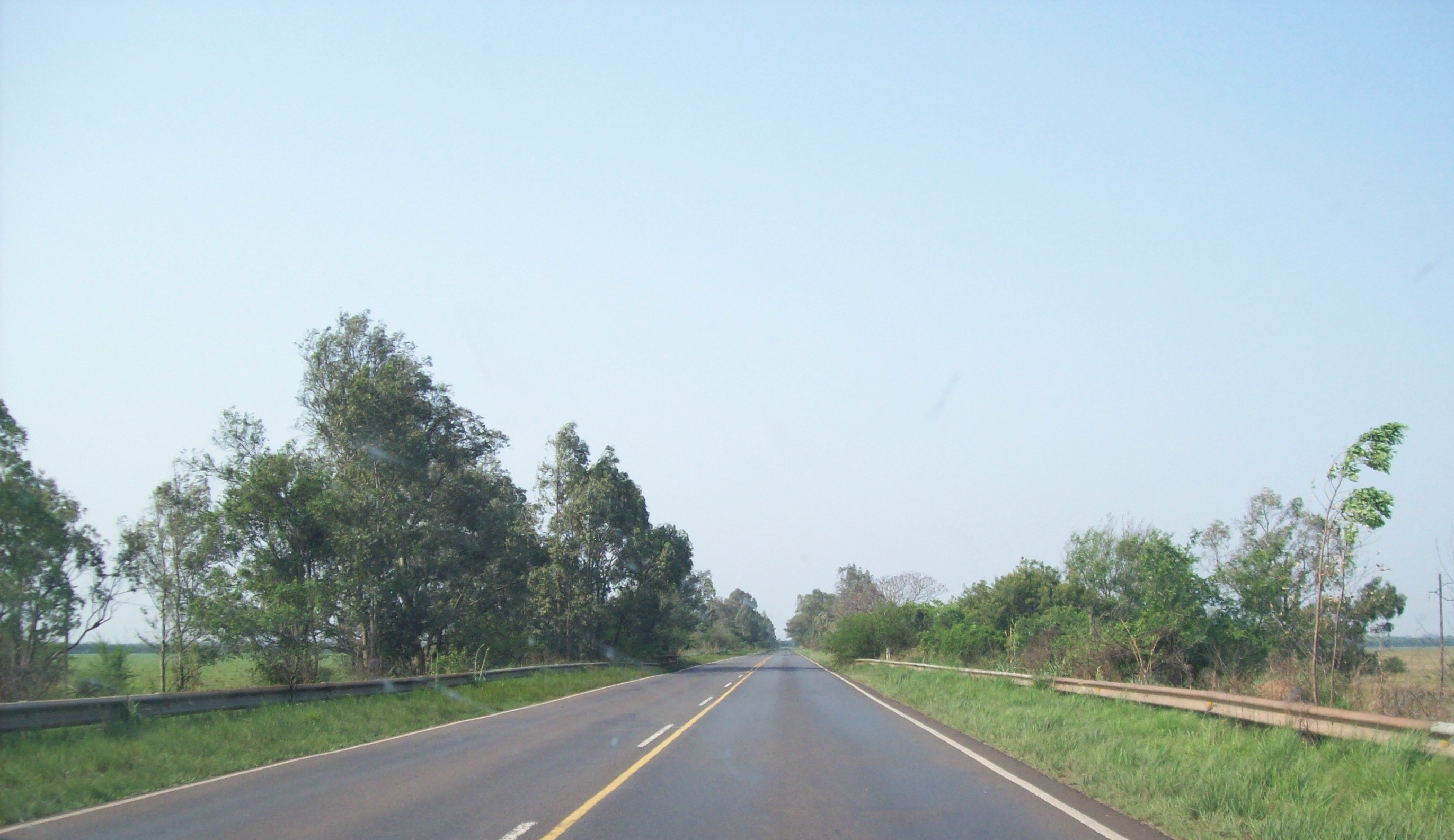 Ruta Nacional 14 between La Cruz and Alvear, Corrientes, Argentina